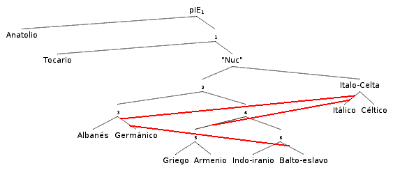 Phylogenetic network (red lines represent linguistic loans)